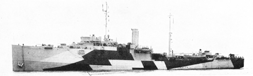 The U.S. Navy internal combustion repair ship USS Oglala (ARG-1), circa 1944. She is painted in camouflage measure 32, design 6d.